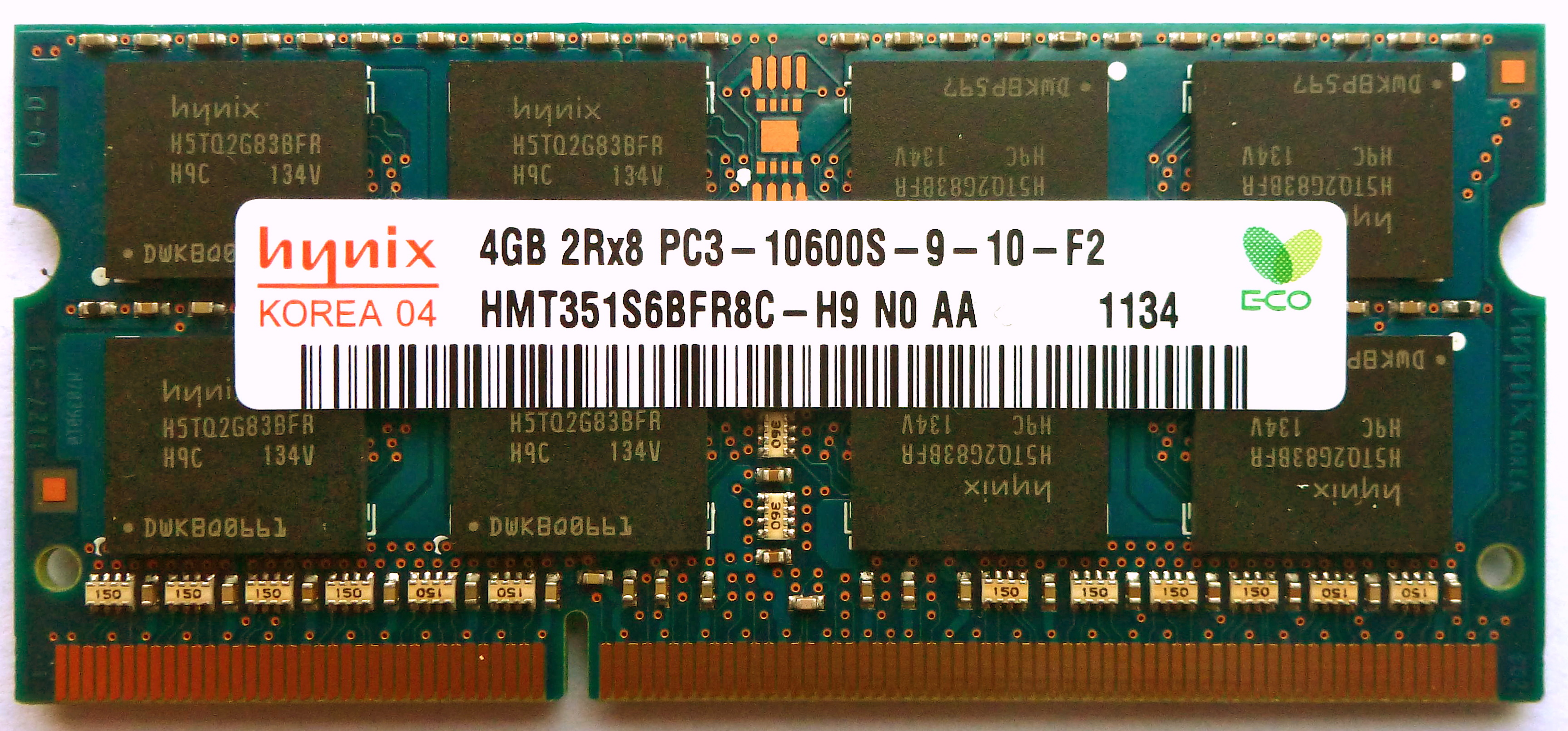 4GB DDR3 DRAM, 204-pin SO-DIMM (hynix)